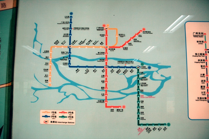 Since I last visited Guangzhou, both Beijing and Shanghai have expanded their subway systems. I was hoping when I arrived that Guangzhou would have expanded too but no such luck. I am promised though that 2009 will bring some new extensions :)